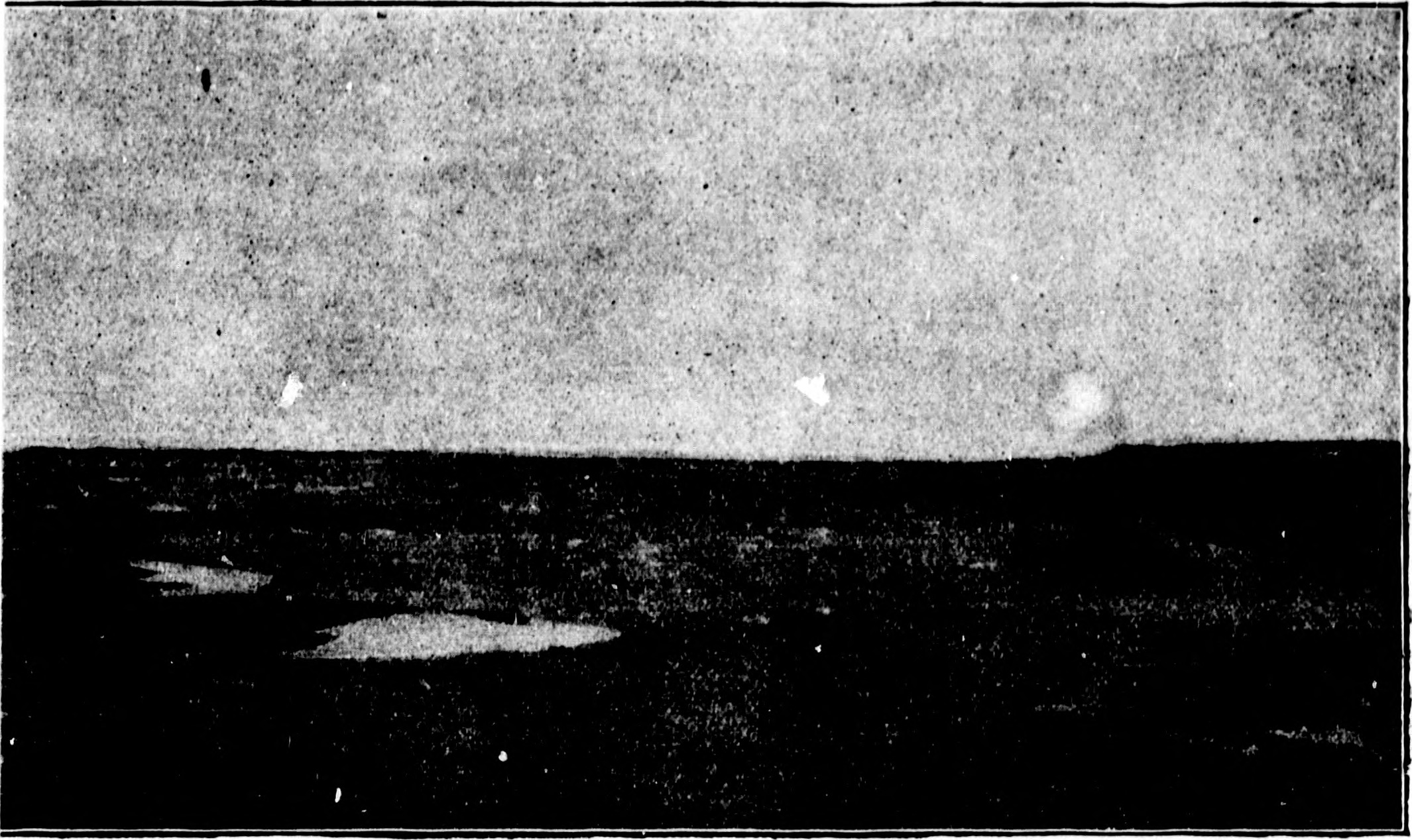 Meteorite Island Title: Northward over the "great ice" (microform) : a narrative of life and work along the shores and upon the interior ice-cap of northern Greenland in the years 1886 and 1891-1897 : with a description of the little tribe of Smith-Sound Eskimos, the most northerly human beings in the world, and an account of the discovery and bringing home of the " Saviksue" or great Cape-York meteorites Year: 1898 (1890s) Authors: Peary, Robert E. , 1856-1920 Subjects: Scientific expeditions; Expéditions scientifiques Publisher: New York : F. A. Stokes Text Appearing Before Image: MELVILLE BAY SITS OP "AHNIOHITO" Text Appearing After Image: 1 i METEORITE ISLAND ney to Cai)c York and into Mflvillc Hay, w lu-n tliry needed to repleni.sii tlu'iV stork of iron. Tiie he.ul